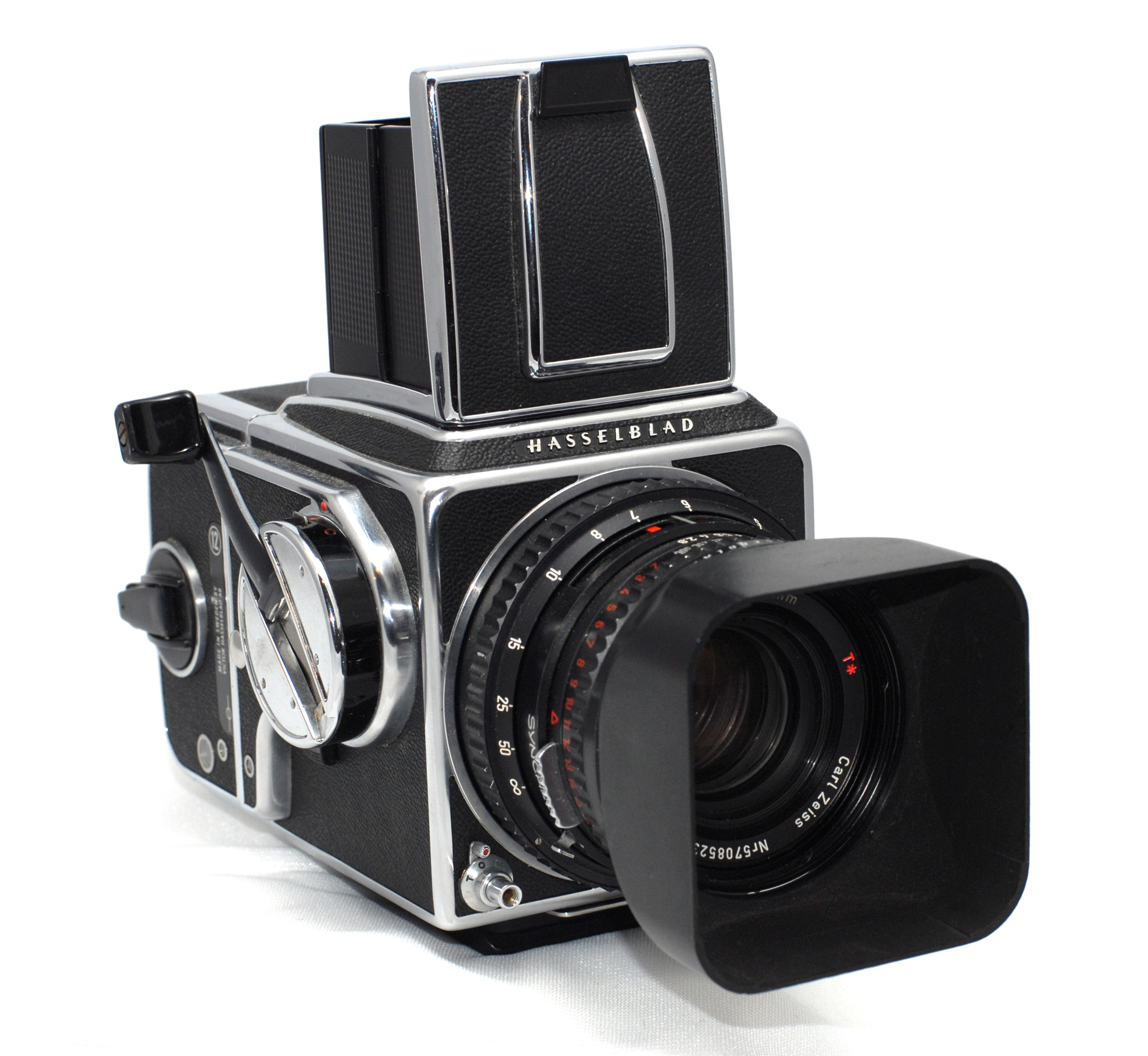 Stock photo of the Hasselblad 500 CM medium format camera.